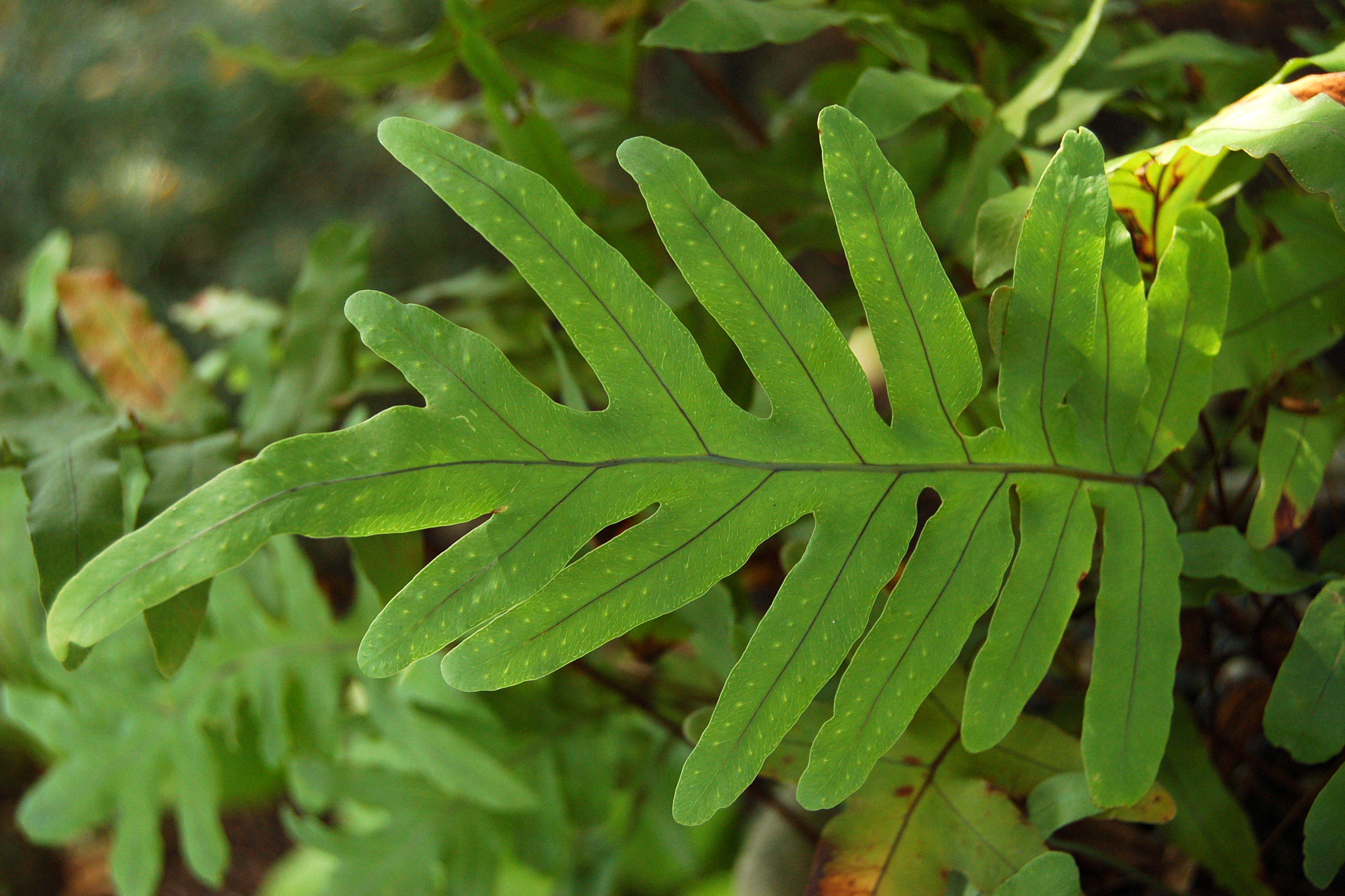 A picture of the leaf of a Phlebodium aureum en (syn. Polypodium aureum) plant. Photo taken at the Chanticleer Garden where it was identified.